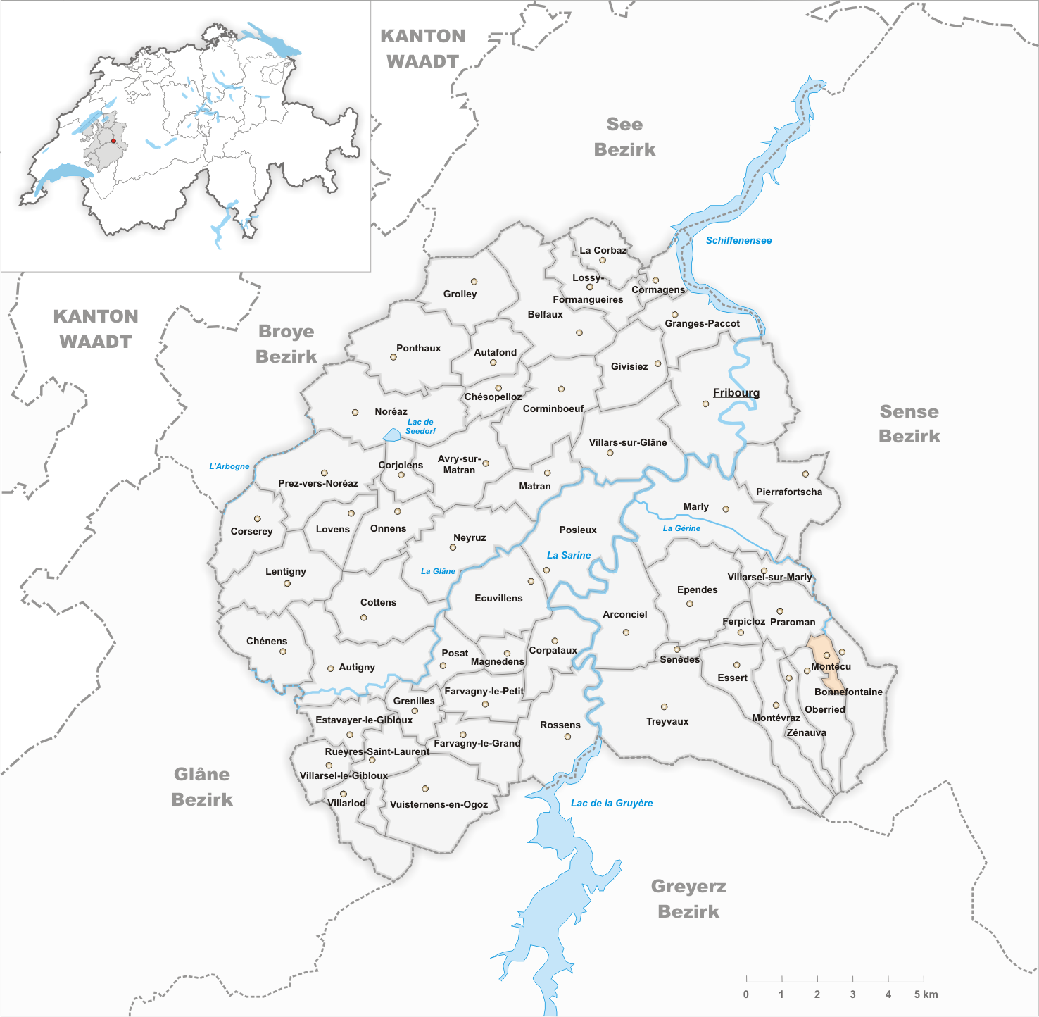 Municipality Montécu Artist: Tschubby